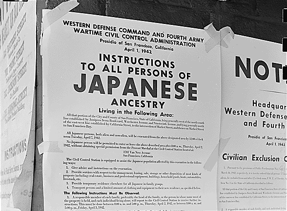 Japanese American internment notice — 1 April 1942. Exclusion Order posted to direct Japanese Americans living in the first San Francisco section to evacuate. First and Front Streets, San Francisco, California.